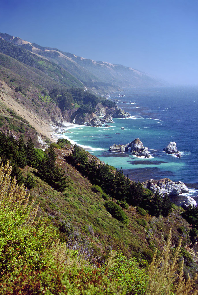 Big Sur and the Pacific coast from Pacific Coast Highway—California State Route 1 (Hwy 1). Monterey County, California.